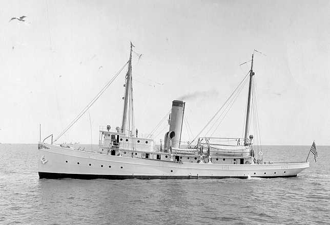 The USRC Snohomish (RC-16)